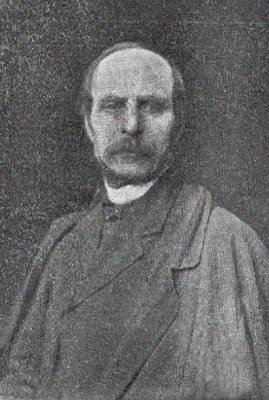 Julian Zawodziński, Polish painter, 1806 - 1890